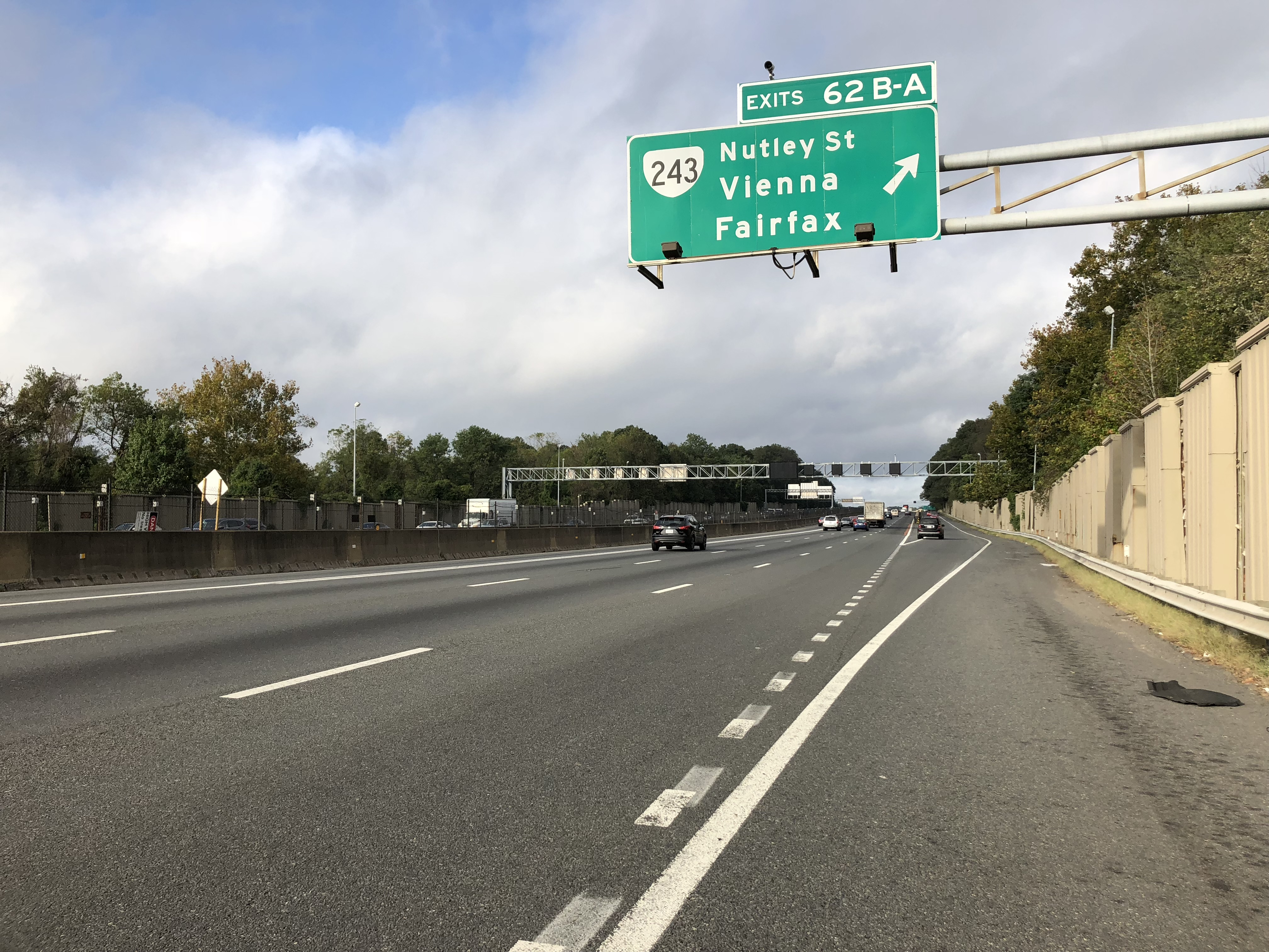 View west along Interstate 66 at Exit 62B-A (Virginia State Route 243 - Nutley Street, Vienna, Fairfax) in Vienna, Fairfax County, Virginia